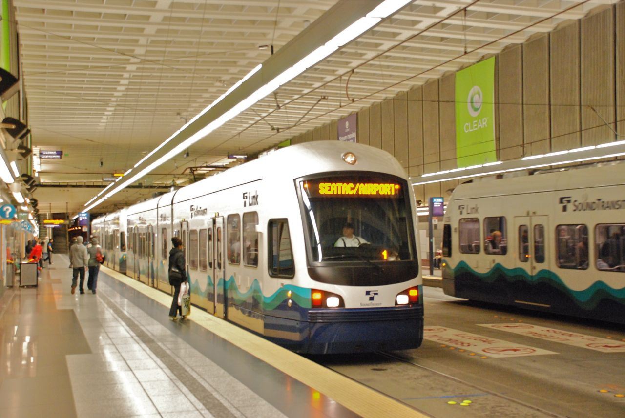 A southbound Link light rail train at University Street station, in the Downtown Seattle Transit Tunnel, with a northbound train passing in the background.